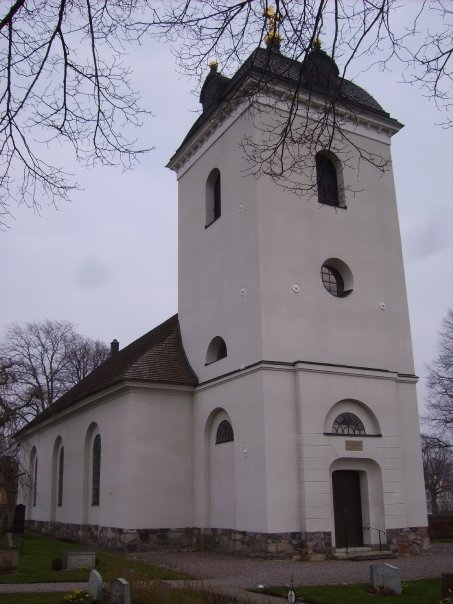 The church in Tåby.